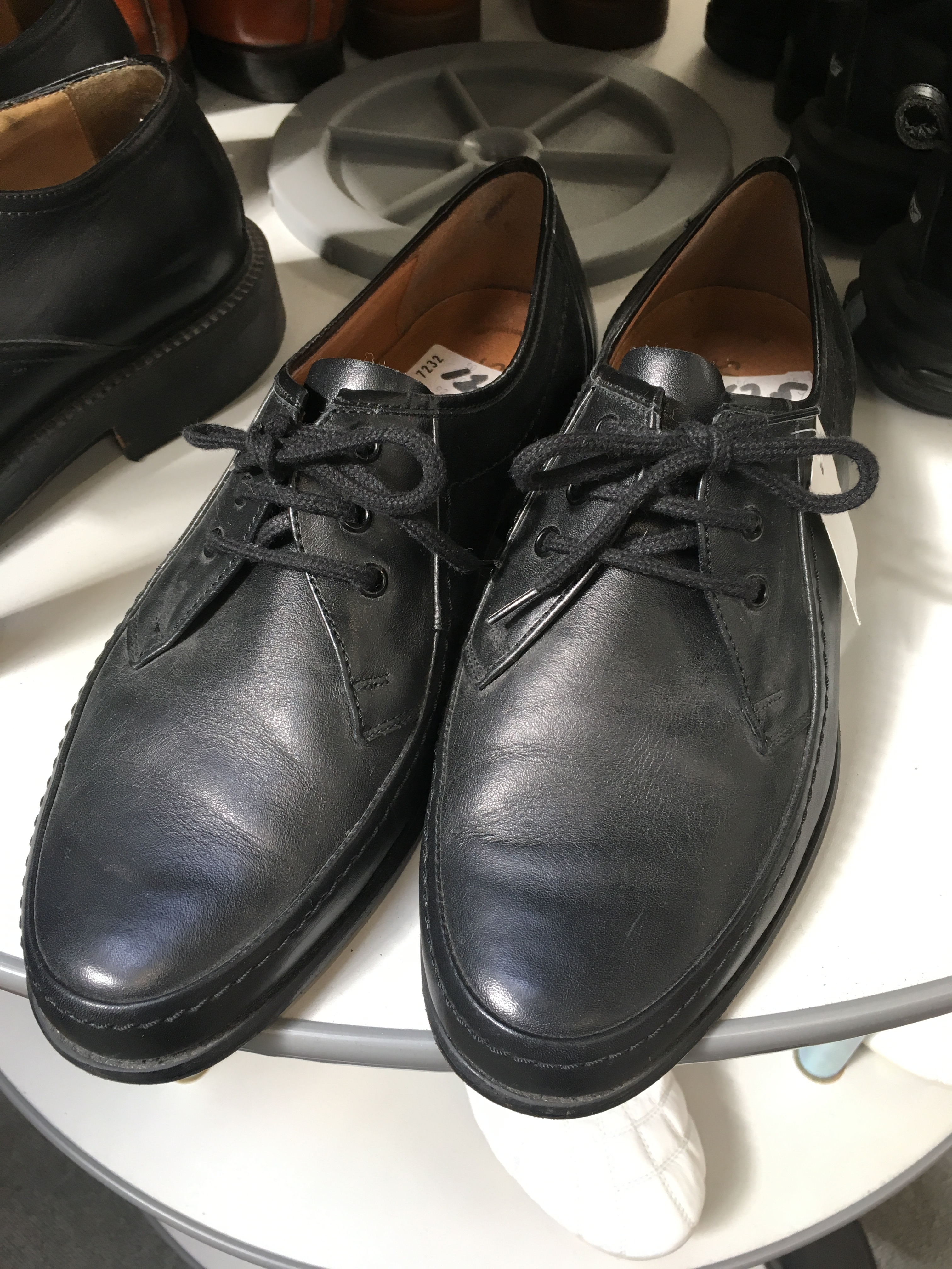 Shoes from the German company Salamander